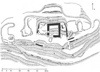 Site plan de Pajrek/Bayereck castle, 1900, by Max Kleiber.